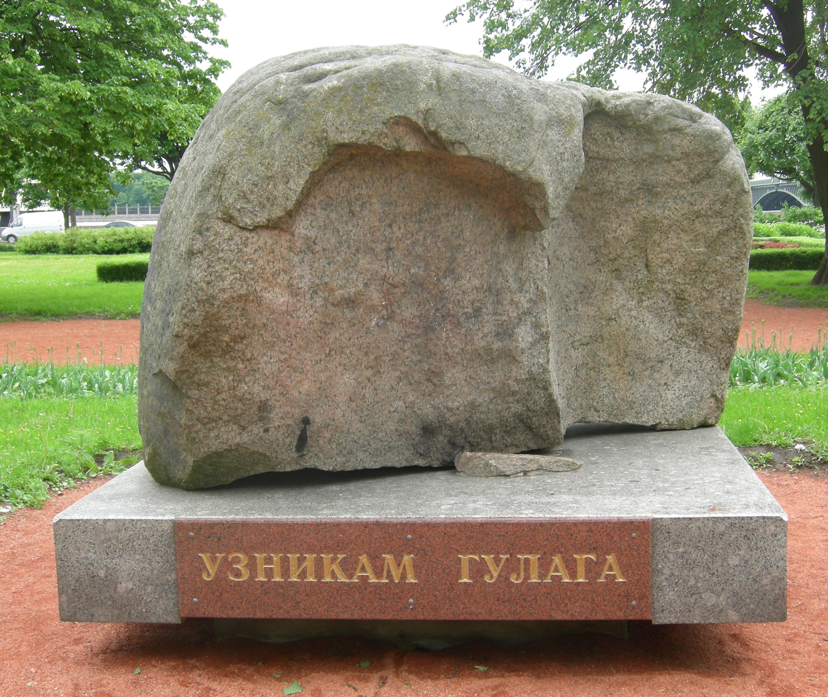 Solovetsky Stone in Troitskaya Square, St. Petersburg, Russia. Translation of the text: "To the Prisoners of the Gulag".